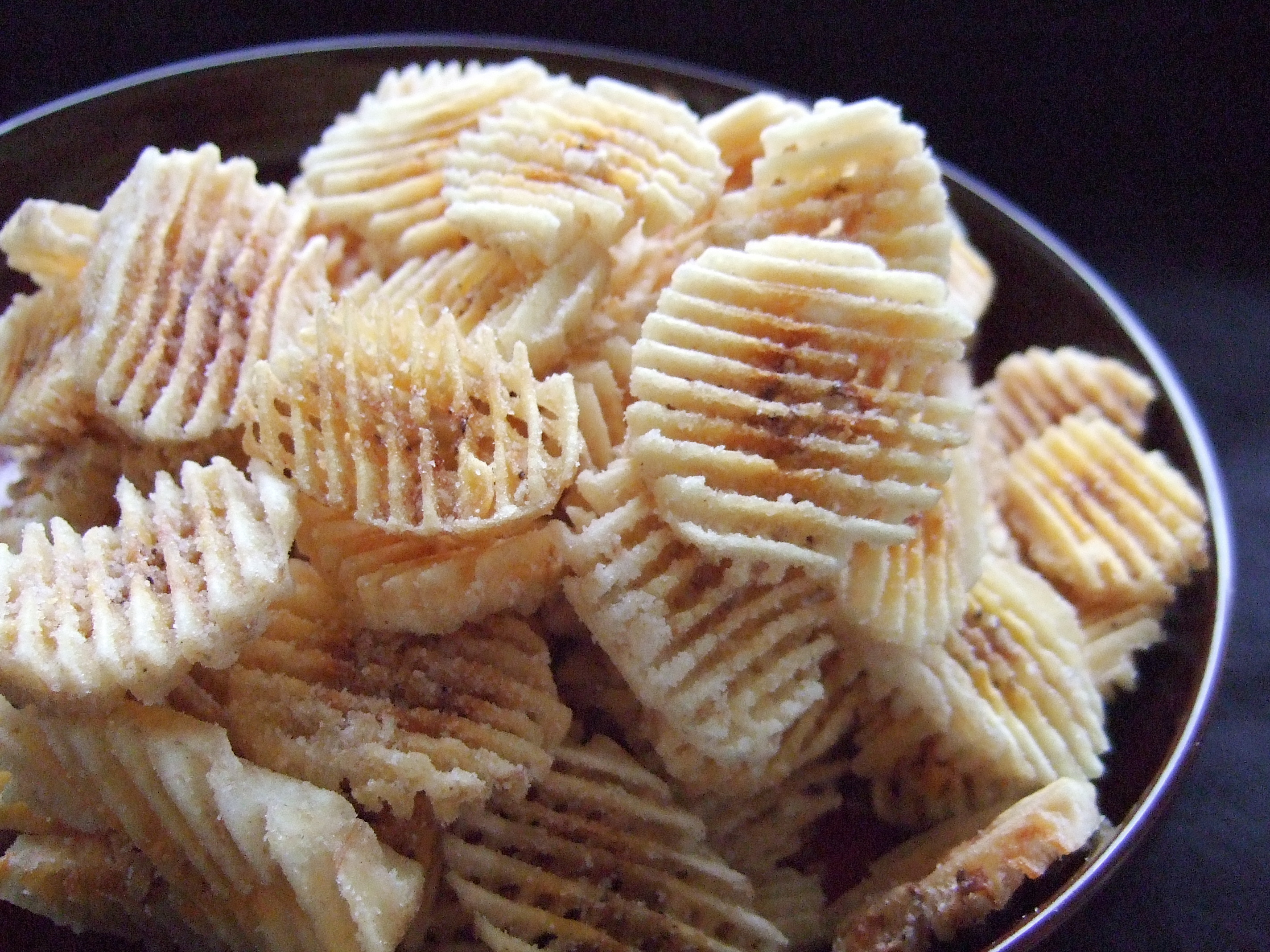 Banana chips, product of Bandar Lampung, Indonesia